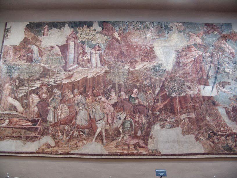 Frescos in Camposanto Monumentale